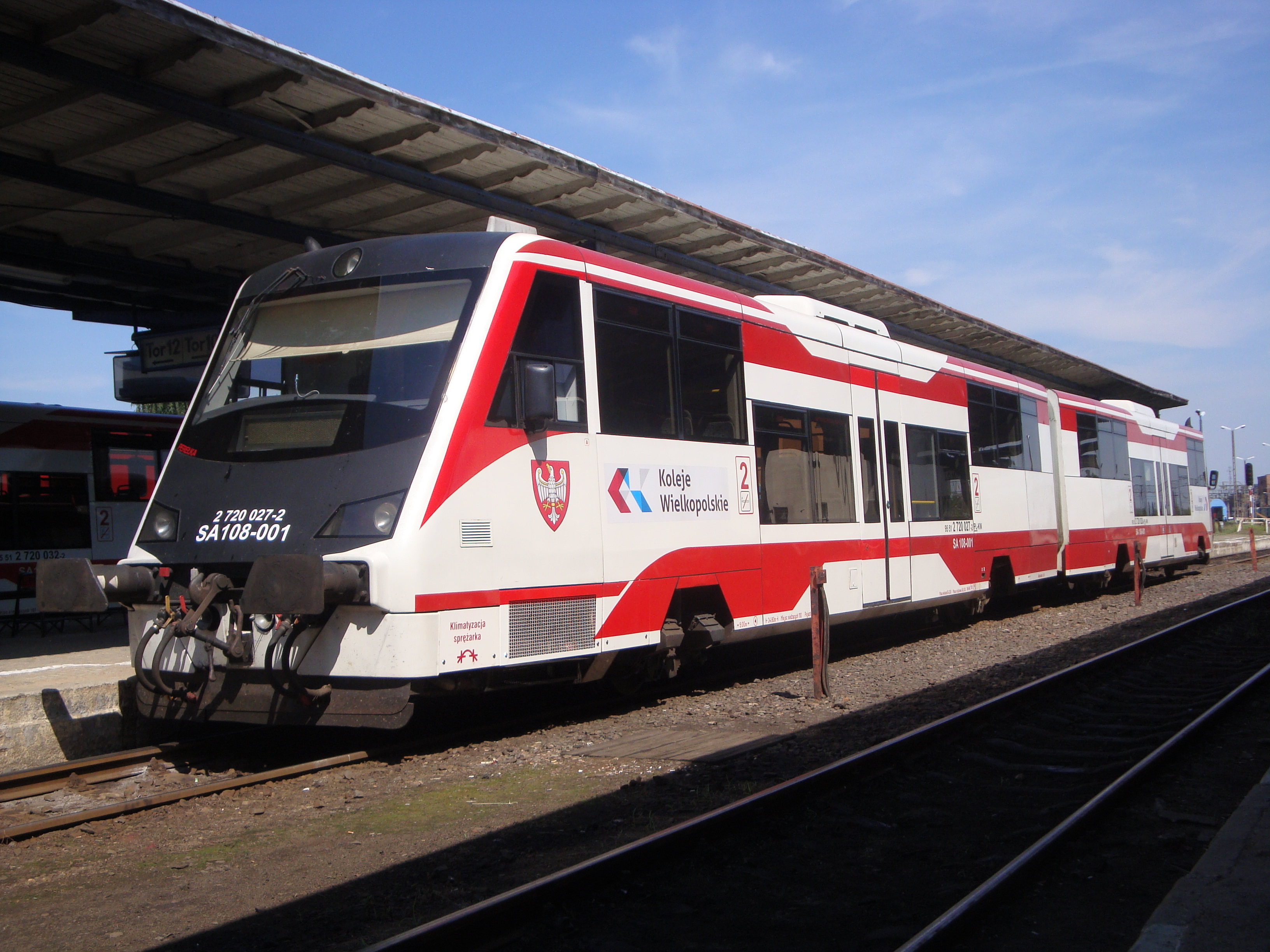 Autobus szynowy SA108-001. This photo was taken during Railway Wikiexpedition 2013 set up by Wikimedia Polska Association. You can see all photographs in category Wikiekspedycja kolejowa 2013. English | Polski | +/−